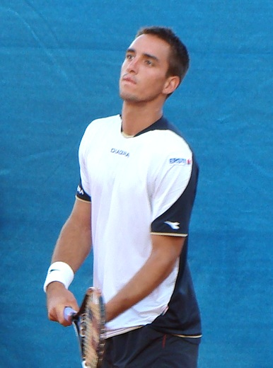 Viktor Troicki in Umag, Croatia